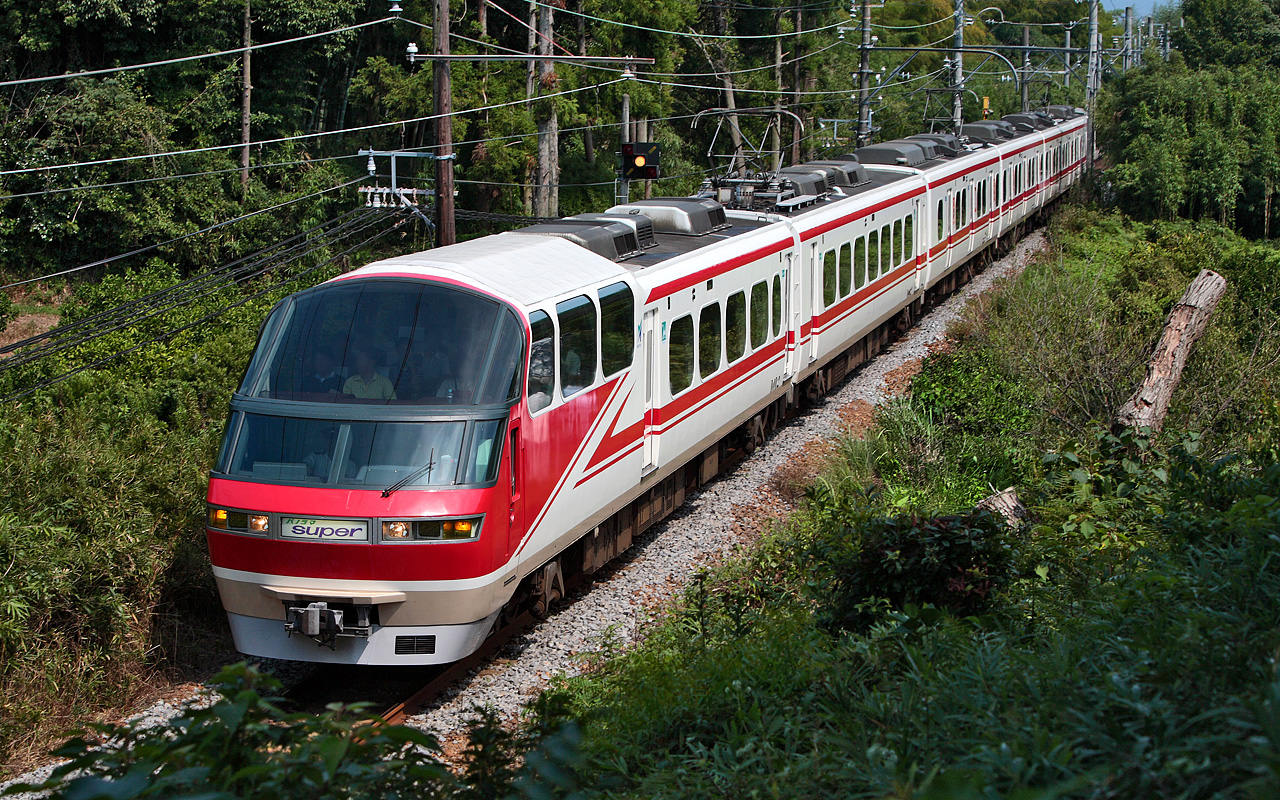 Meitetsu 1000 Series EMU ( 1012 - 1412F ), Kowaguchi Sta. - Kowa Sta.